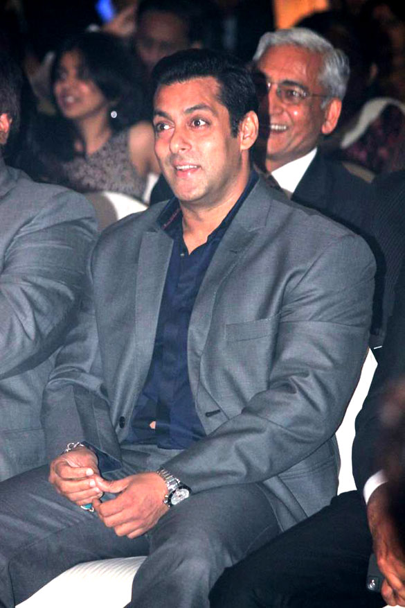 Salman Khan at the 8th Indo-American Corporate Excellence Awards